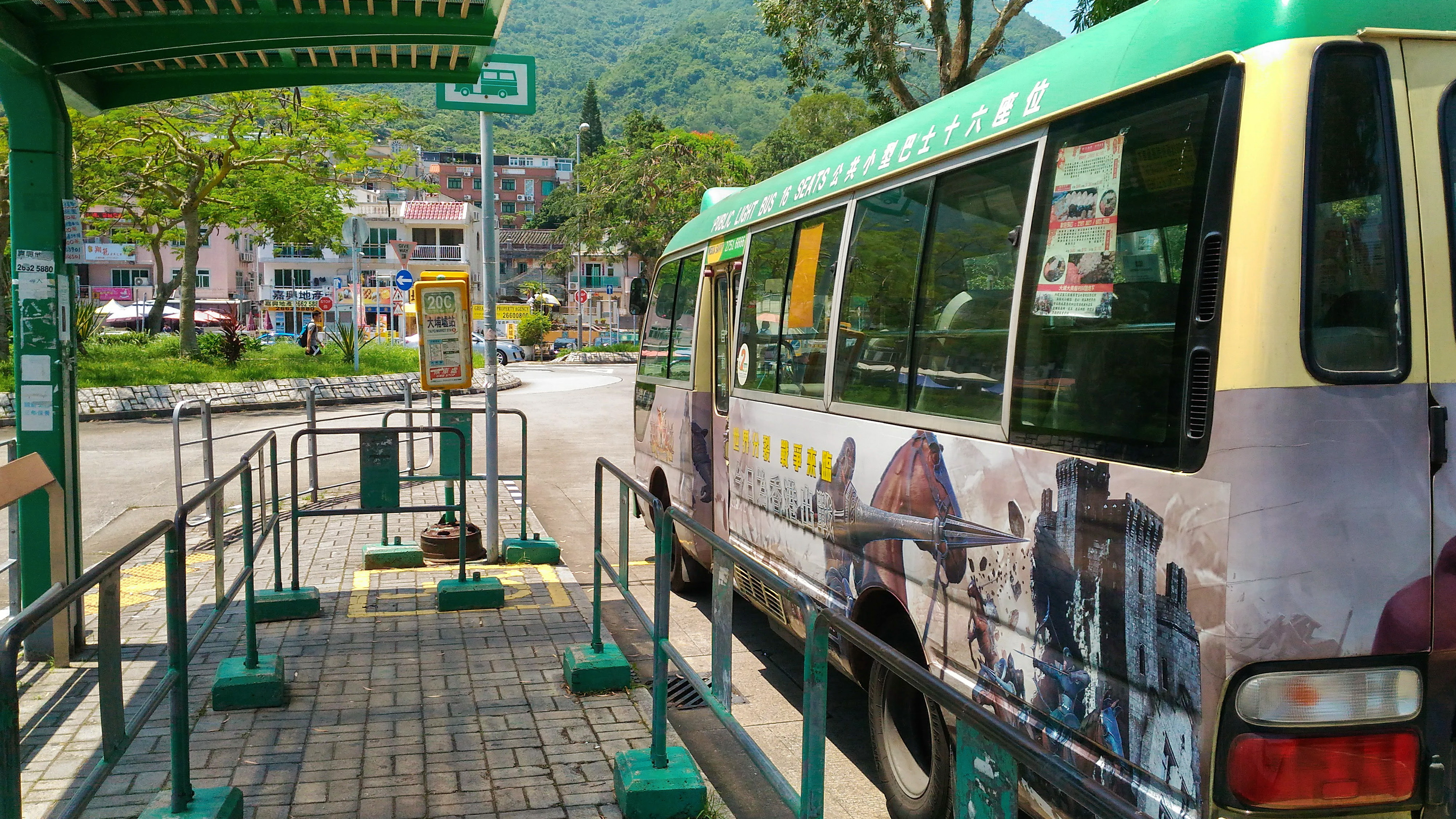 A route 20C public light bus at the Tai Mei Tuk Public Transport Interchange, New Territories, Hong Kong.